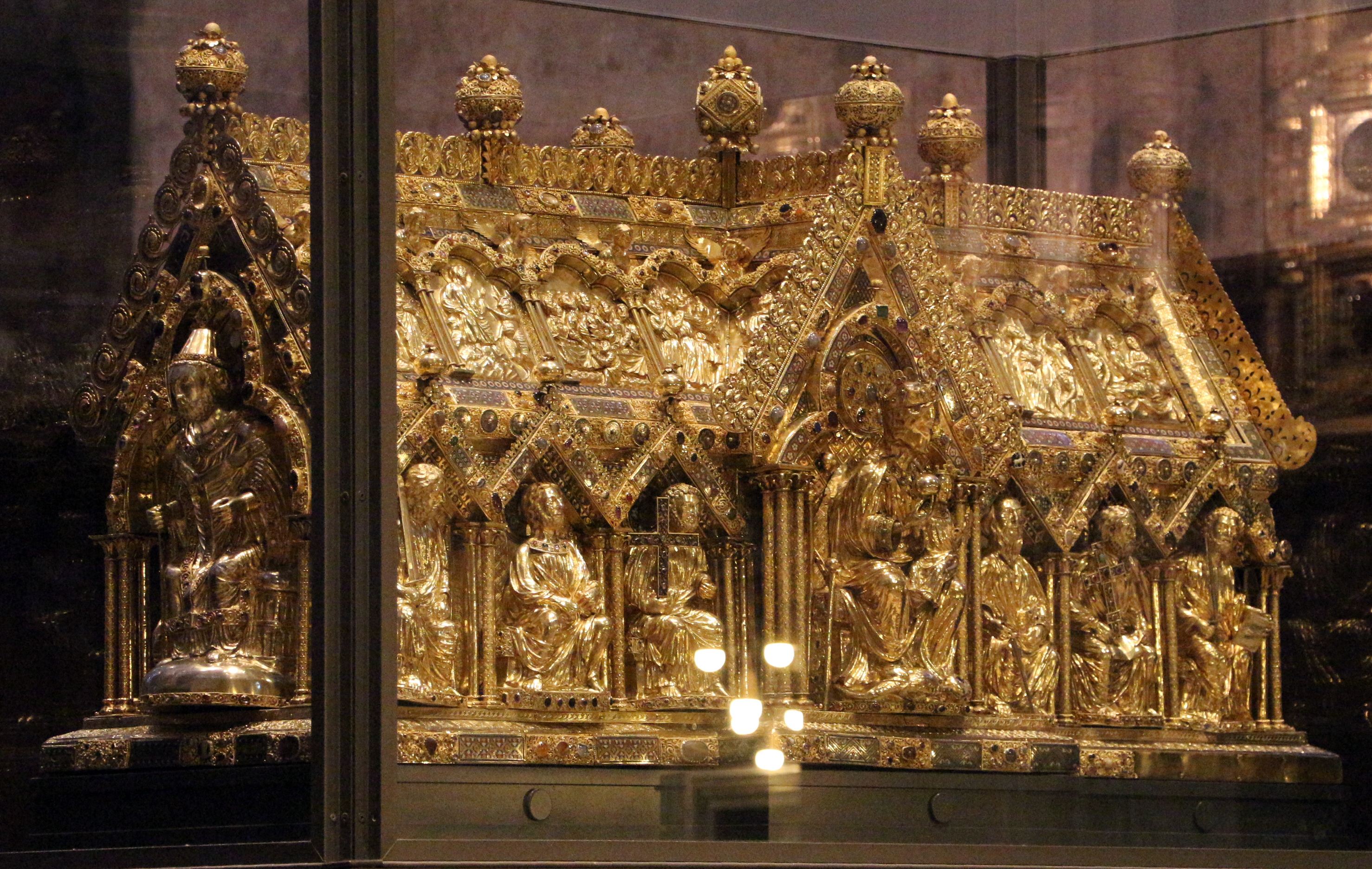 Marienschrein (Aachen)